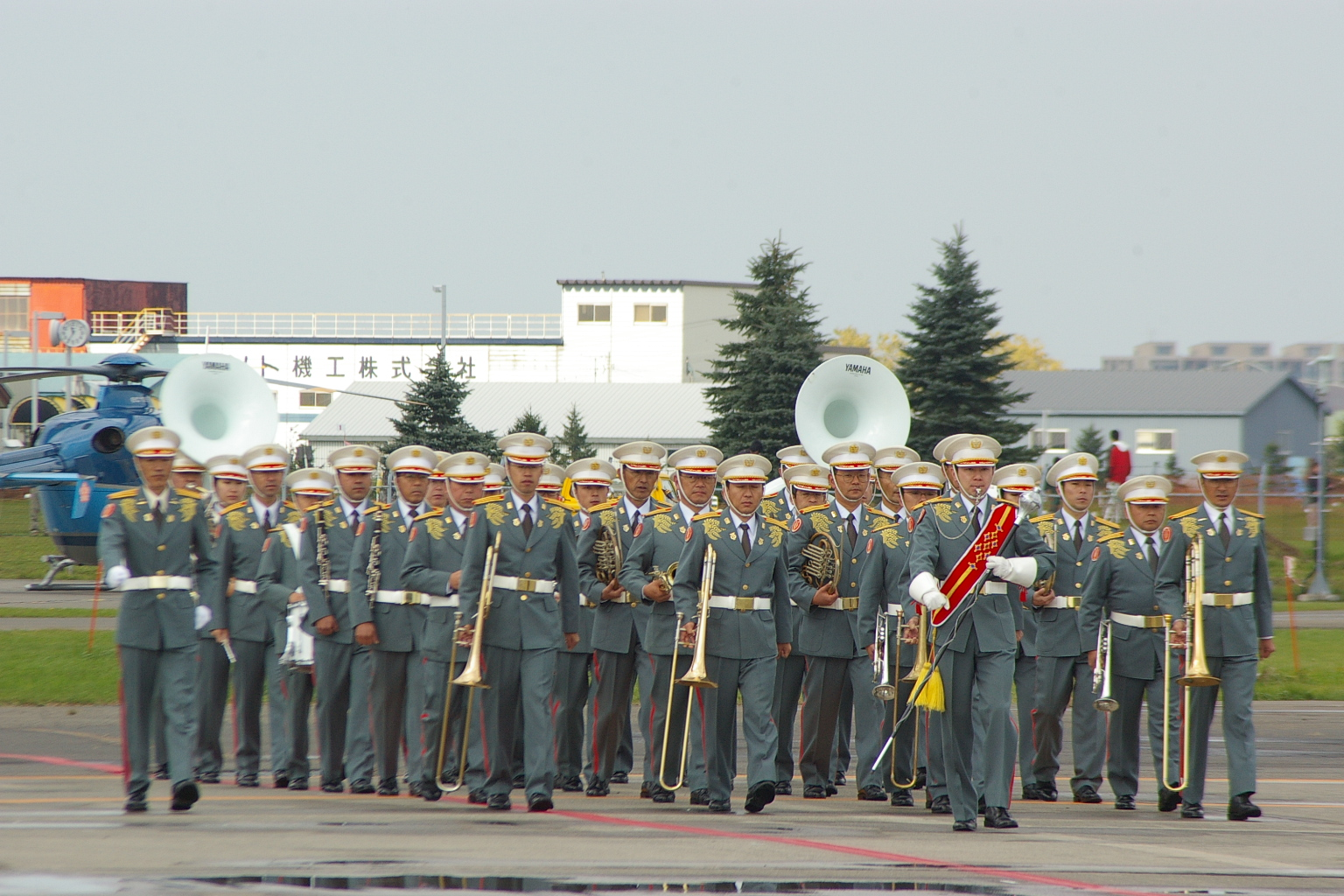 JGSDF 11th Band in Okadama STA.